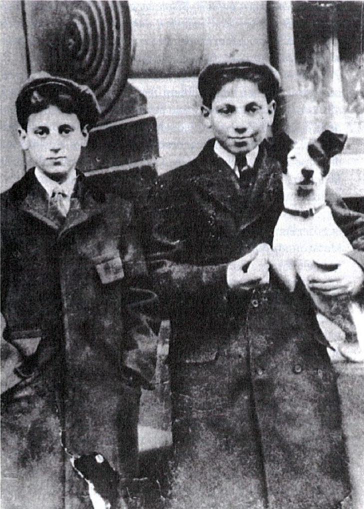 Groucho (left) and Harpo at the age of 12 and 14